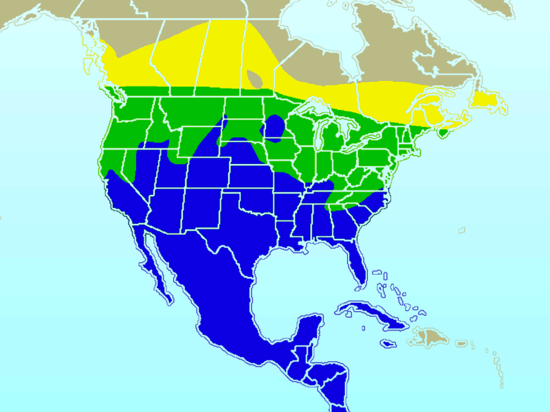 Approximate range/distribution map of the Cedar Waxwing (Bombycilla cedrorum). In keeping with WikiProject: Birds guidelines, yellow indicates the summer-only range, blue indicates the winter-only range, and green indicates the year-round range of the species. summer-only range year-round range winter-only range